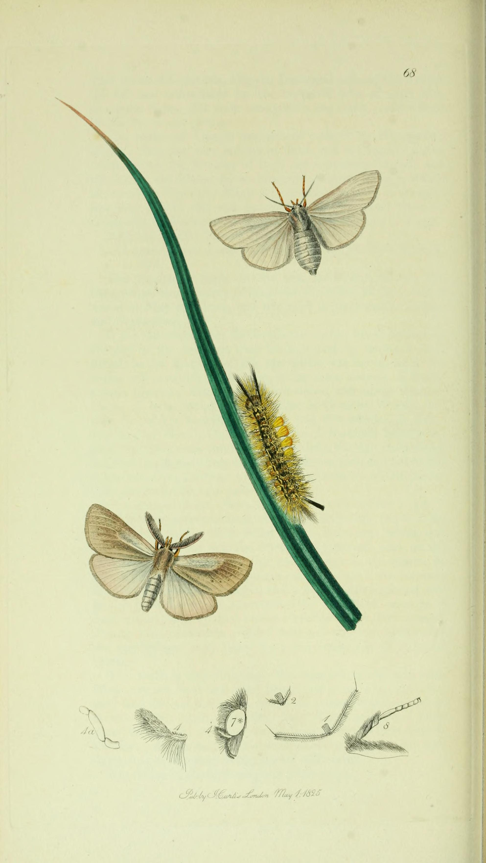 An illustration from British Entomology by John Curtis. Arctia caenosa or Laelia coenosa (Reed Tussock).